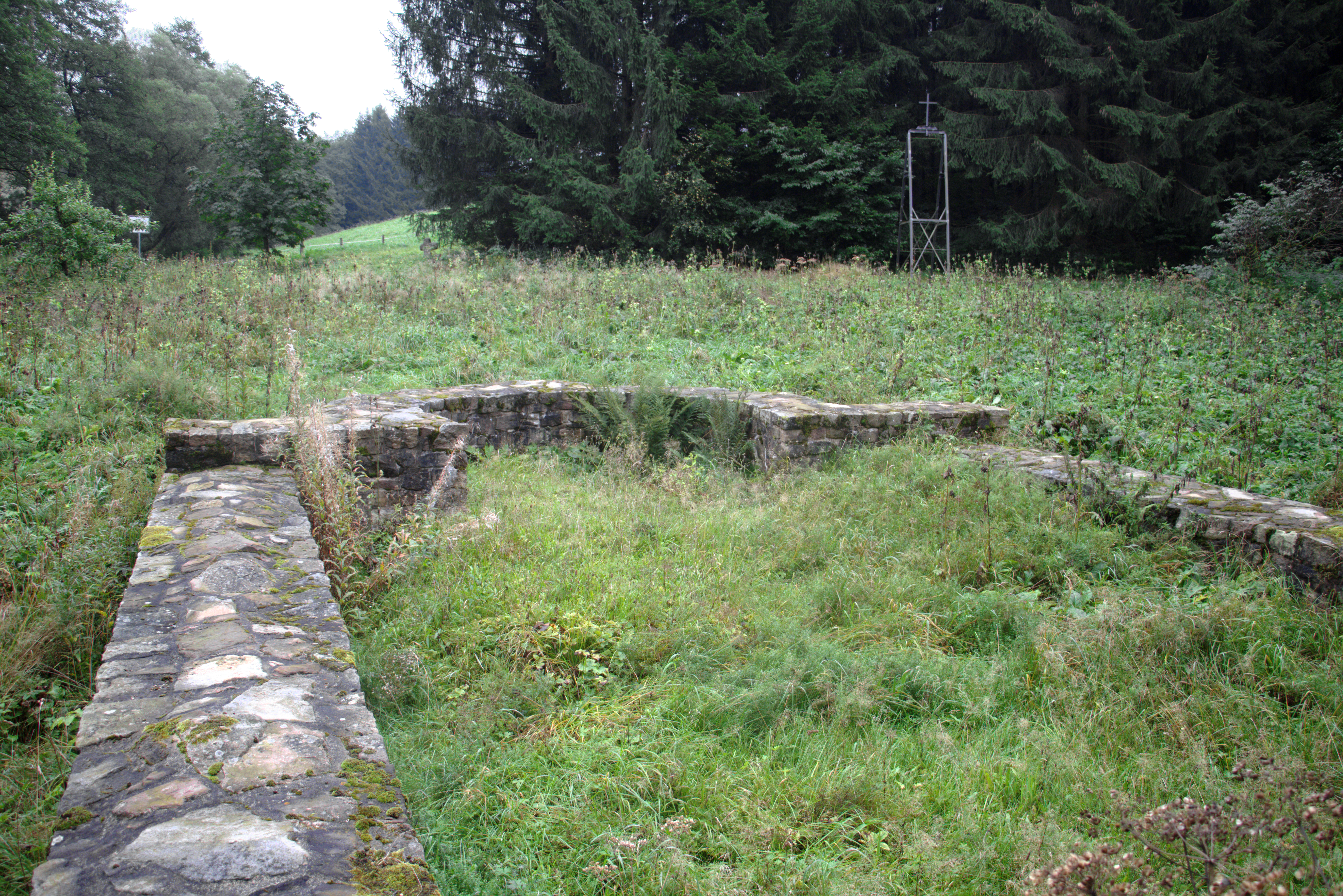 Foundation walls (detail) of former Rommers Church in Rommers, Gersfeld , Hesse, Germany